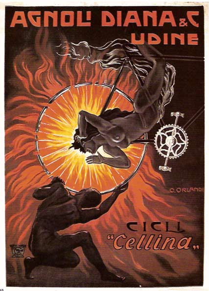 Poster by Orlandi Orlando.